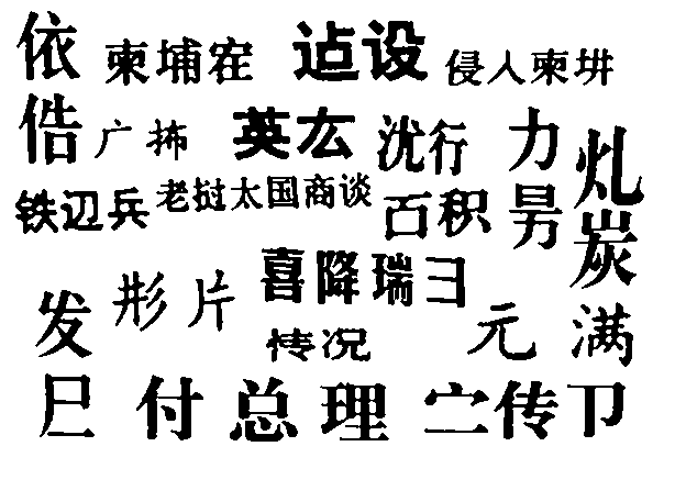 A collage of different second round simplified Chinese characters used in Renmin Ribao in 1978. 中文（台灣）: 從1978年《人民日報》上的二簡字拼貼而成。